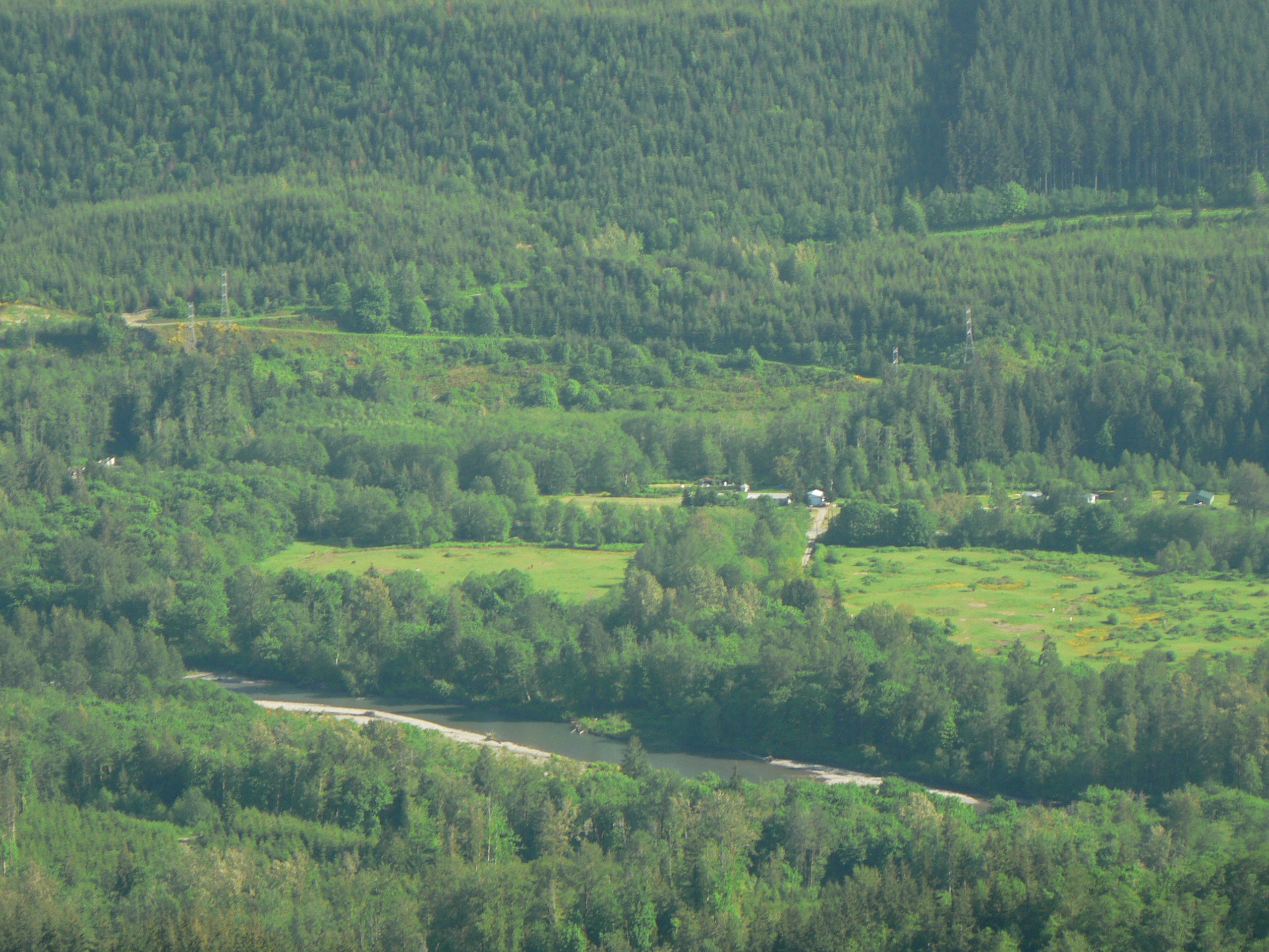 Stillaguamish River Valley (North Fork) immediately east (upriver) of C-Post Road